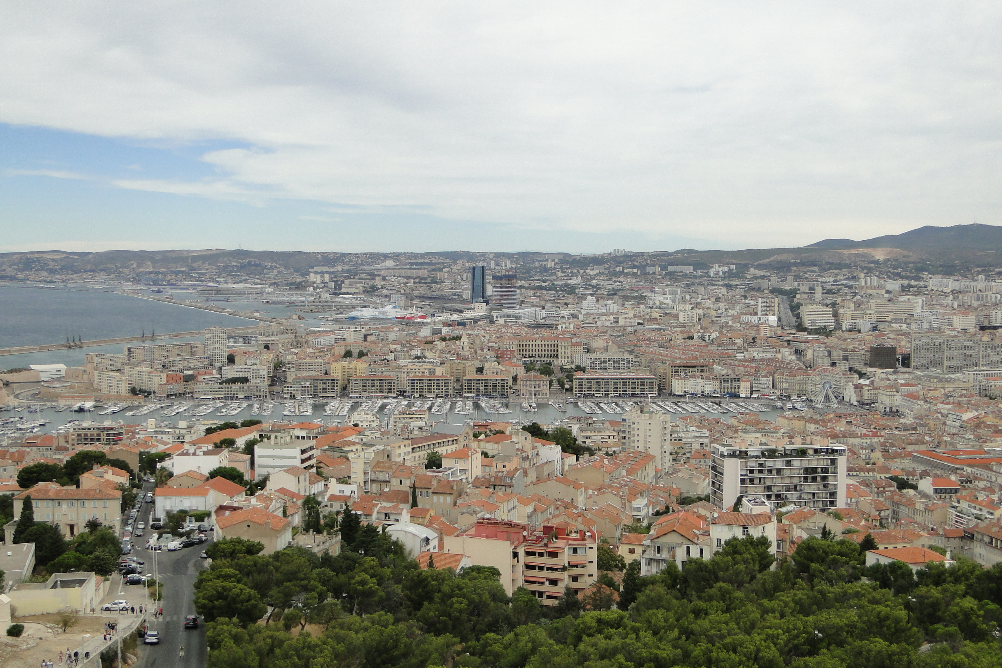 Vieux Port (Old Harbour) in Marseille (France)